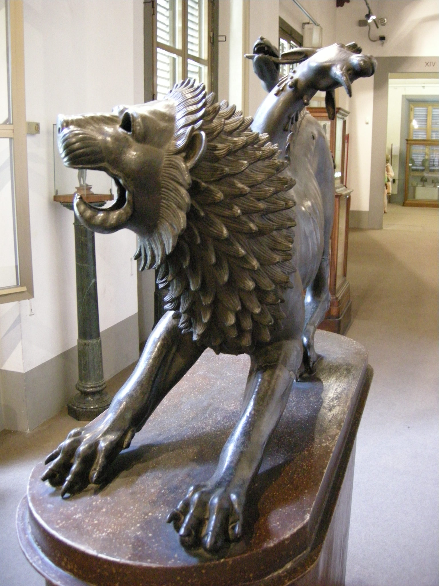 Etruscan bronze statue depicting the legendary monster. It was originally part of a group with Bellerophon and Pegasus. On the right leg is engraved the dedicatory inscription to Tinia.